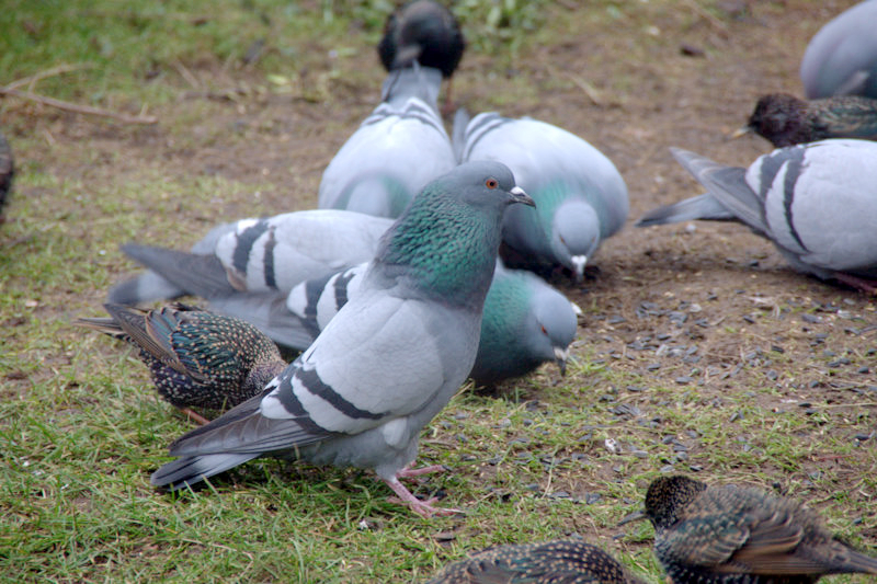 Rock Dove, flock at Baltasound, Shetland, UK. Rock Doves are the wild ancestors of the Feral Pigeons of towns and cities. The wild, native population in Britain is now restricted to the wilder areas of the north and west, and the population is gradually becoming diluted by domestic genes, although all of the birds in this flock show pure characters.